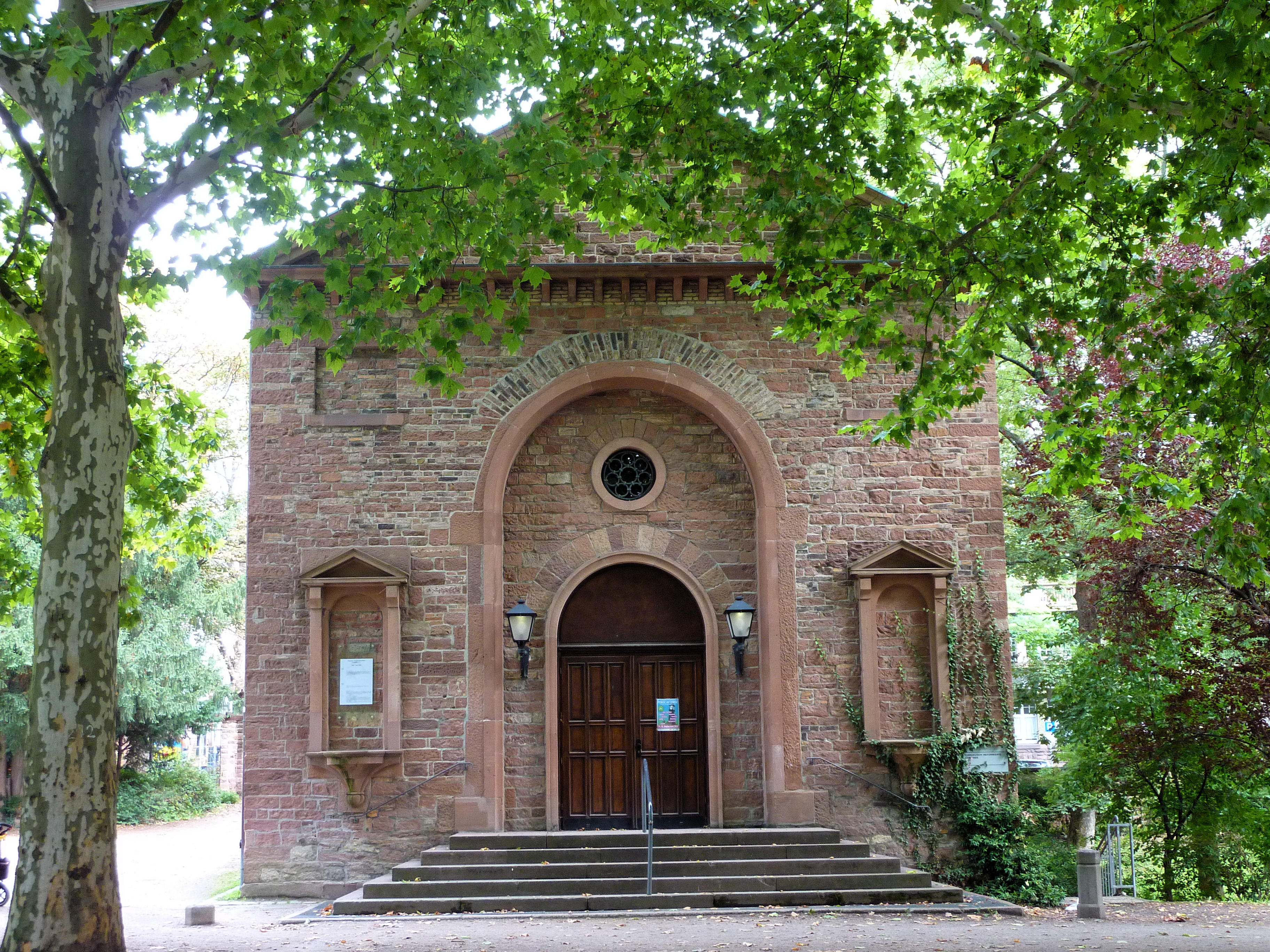 Frankfurt/M., Germany: West façade of the orangery building (built in 1855) in Günthersburgpark in the Nordend borough